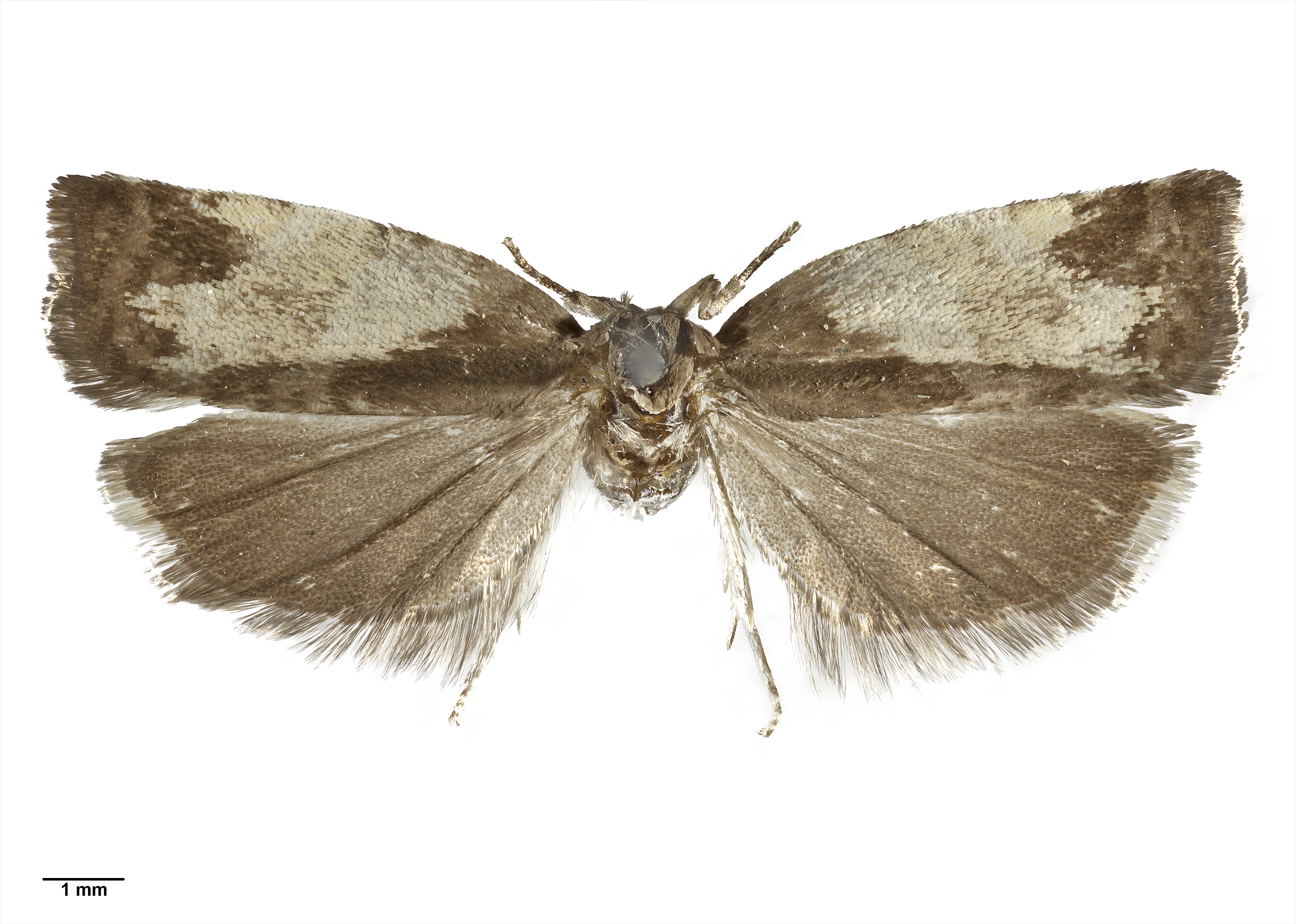 Dorsal view of the female holotype specimen of Epichorista emphanes AMNZ21757 held at the Auckland War Memorial Museum.